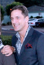 Spotlight on Dreamworks Animation, Rise of the Guardians, 35th Mill Valley Film Festival DreamWorks Animation's Chief Creative Officer, Bill Damaschke